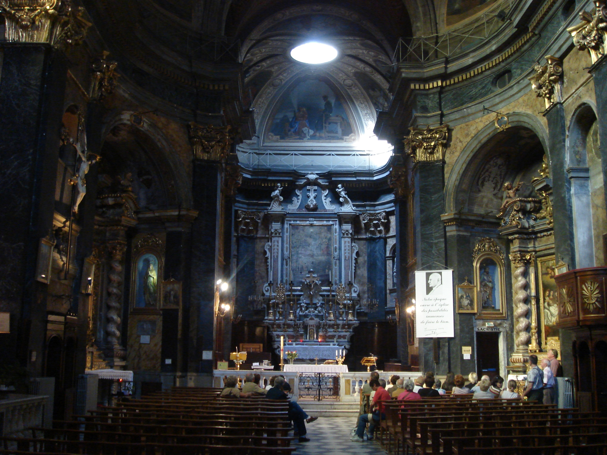 The church of Saint Martin near Colline du Chateau in Nice, South France.